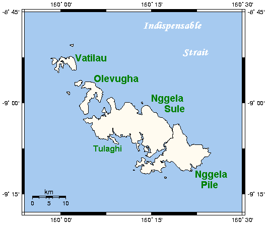 Map of the Nggela Islands (Floridas Islands) — of the Solomon Islands archipelago, in the Solomon Islands (country). Credits This map's source is here, with the uploader's modifications, and the GMT homepage says that the tools are released under the GNU General Public License.